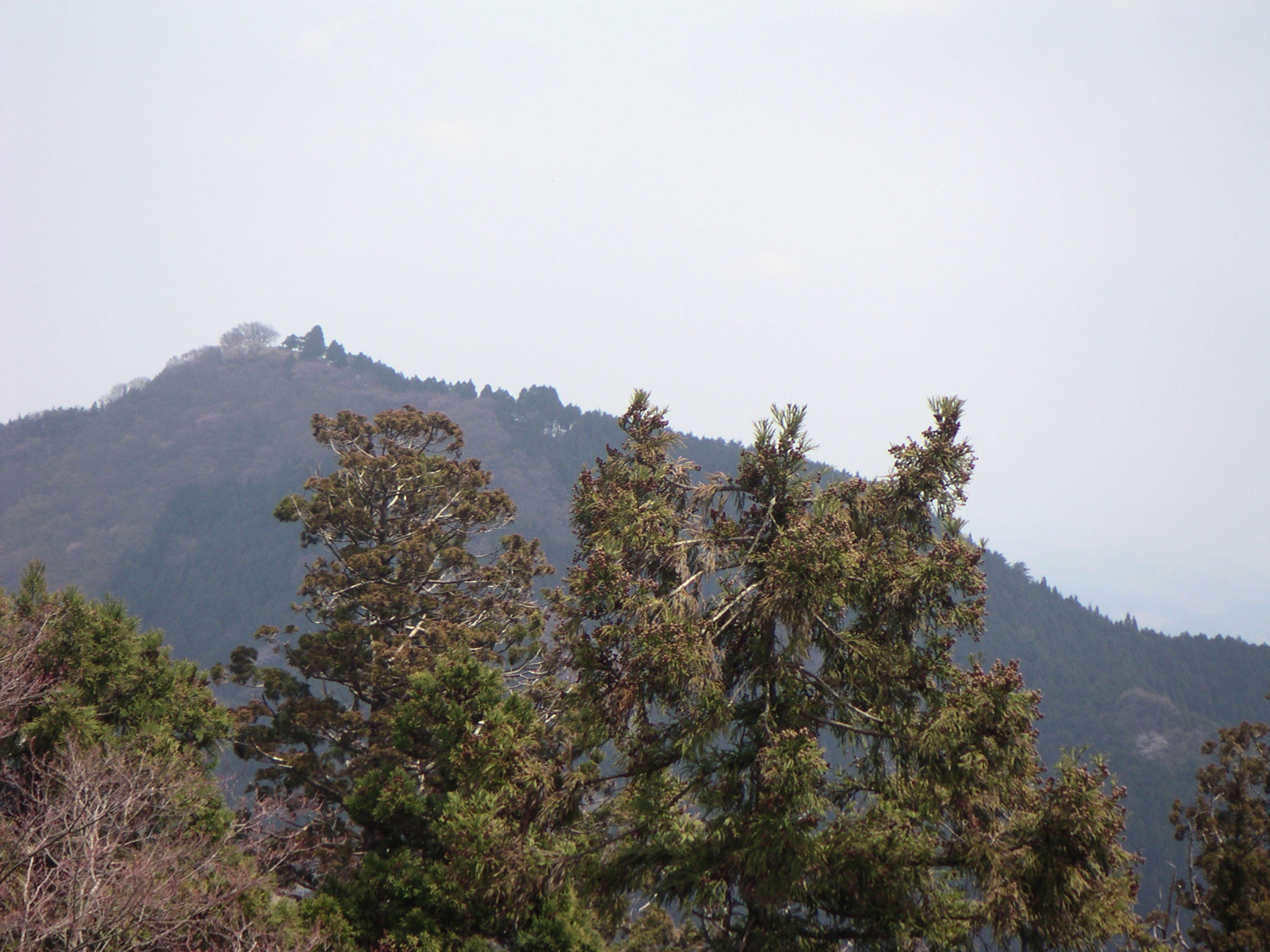 Mt. Hinode, Hinode, Tokyo